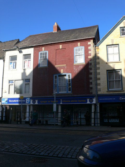 Denbigh Citizens Advice Bureau The offices of the C.A.B. on the town square in Denbigh.